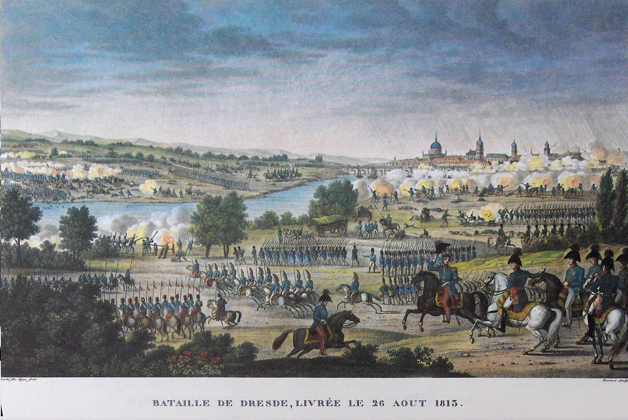 "Battle of Dresden" colored litho by Antoine Charles Horace Vernet (called Carle Vernet)(1758 - 1836) and Jacques François Swebach (1769-1823)